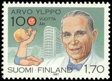 Postage stamp depicting Finnish pediatrician Arvo Ylppö